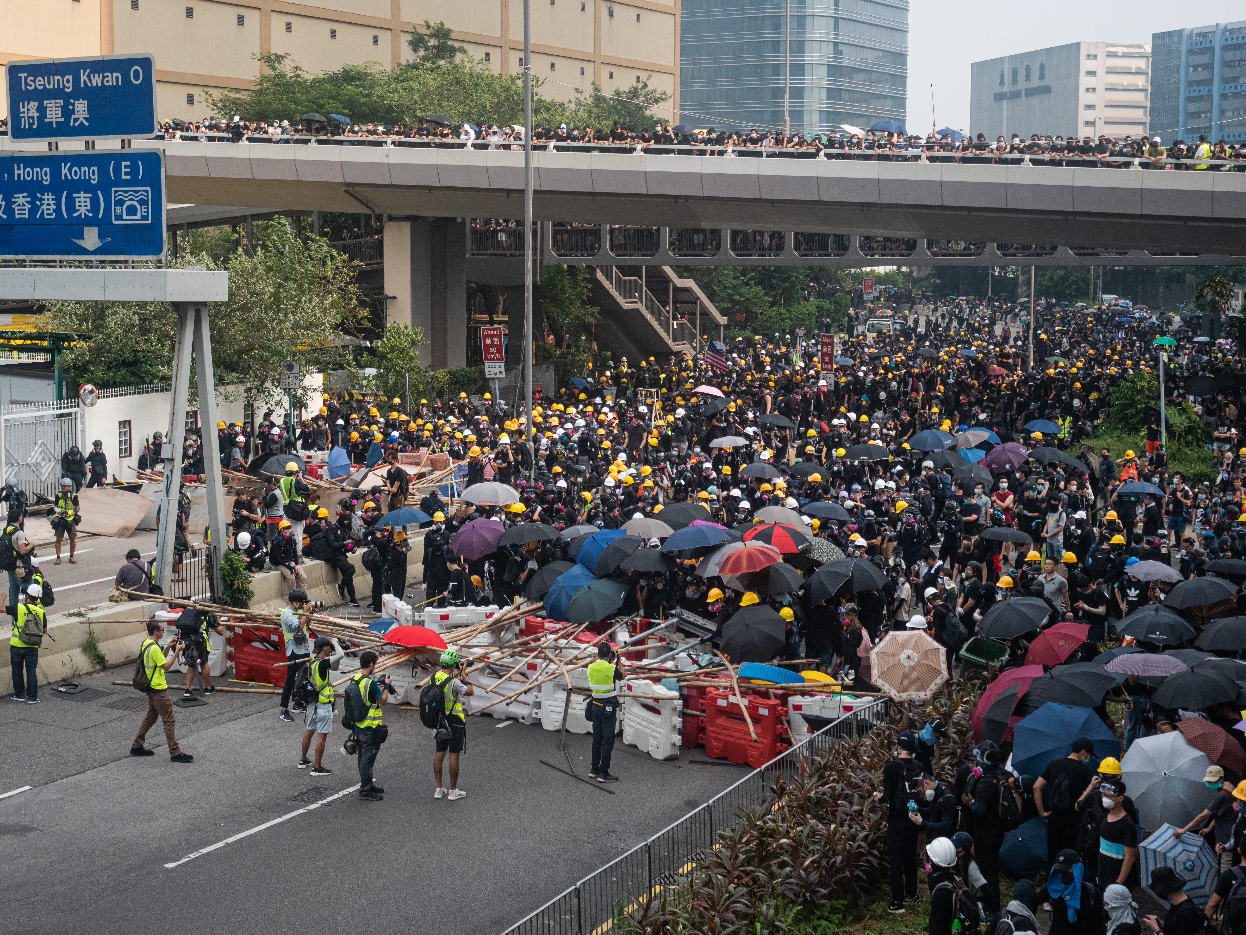 A part of the 2019 Hong Kong anti-extradition bill protests, the Kwong Tong March took place on August 24, 2019.